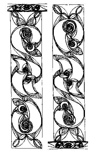 The Brroighter Gold Torc Design by Arthur Evans as repeated in "The Patterns of the Broighter Torc" Author(s): Michael Avery Source: The Journal of Irish Archaeology, Vol. 8 (1997), pp. 73-89 Published by: Wordwell Ltd. Stable URL